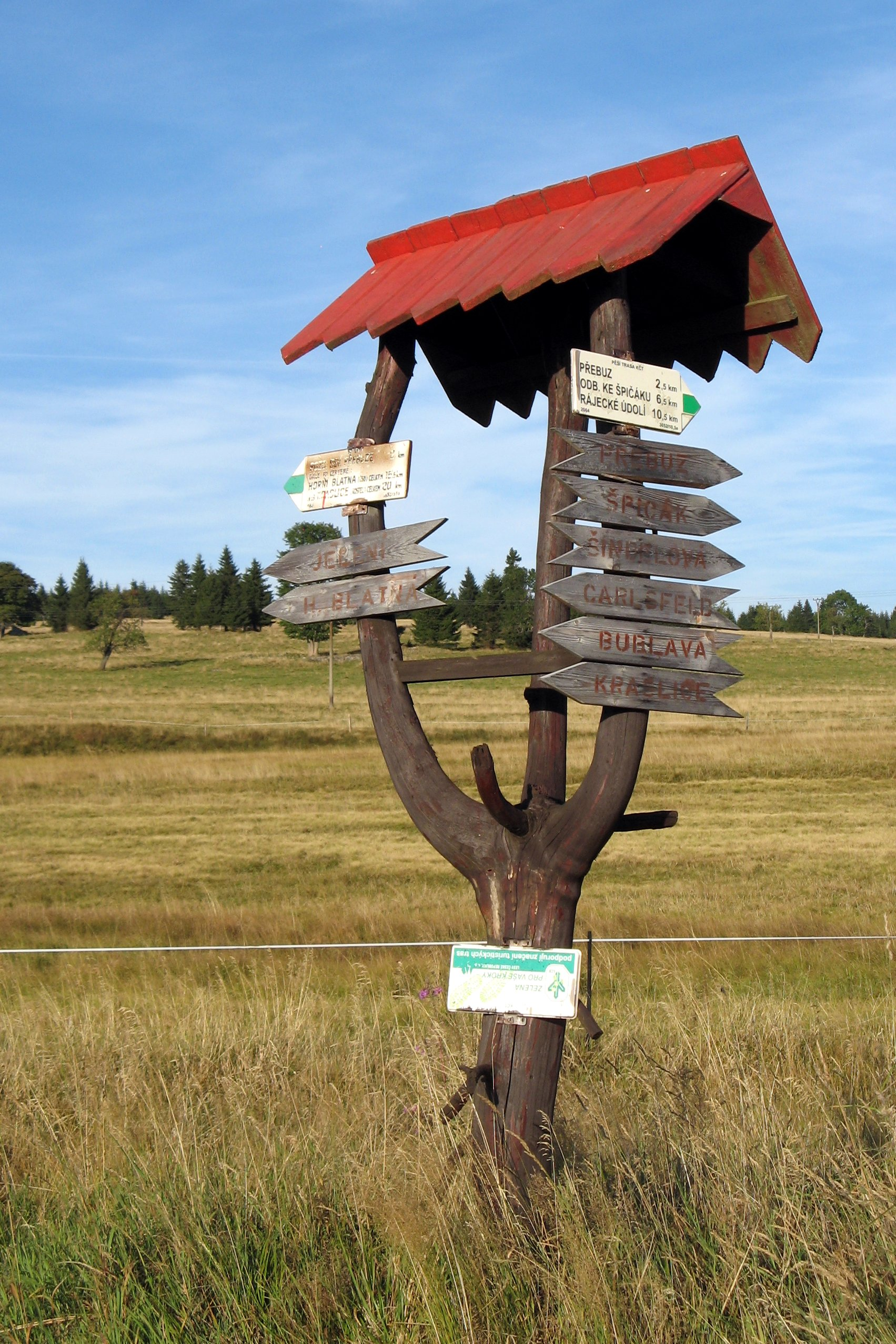 Přebuz, signpost in Rolava